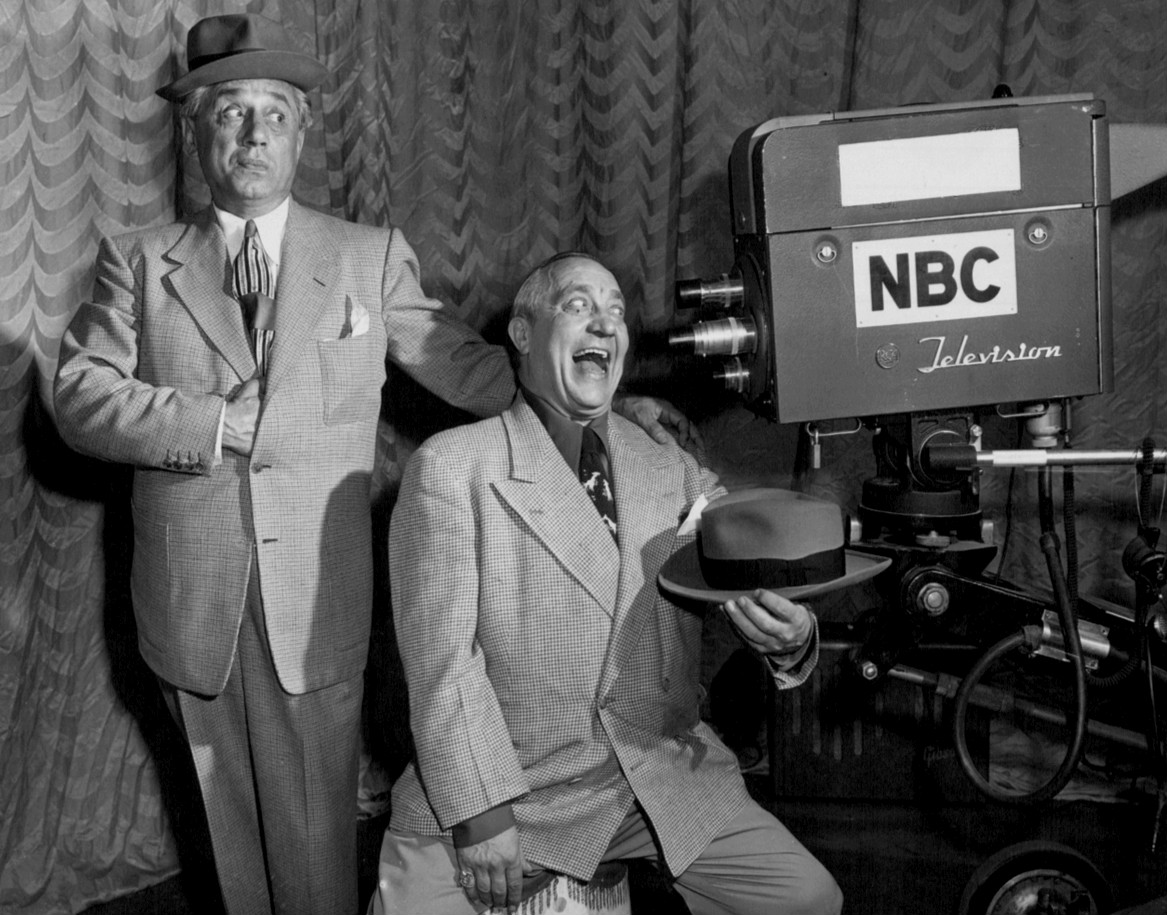 Photo of comedians Olsen and Johnson on their 1949 television program Fireball Fun for All. The item has no copyright markings on it as can be seen in the links above.